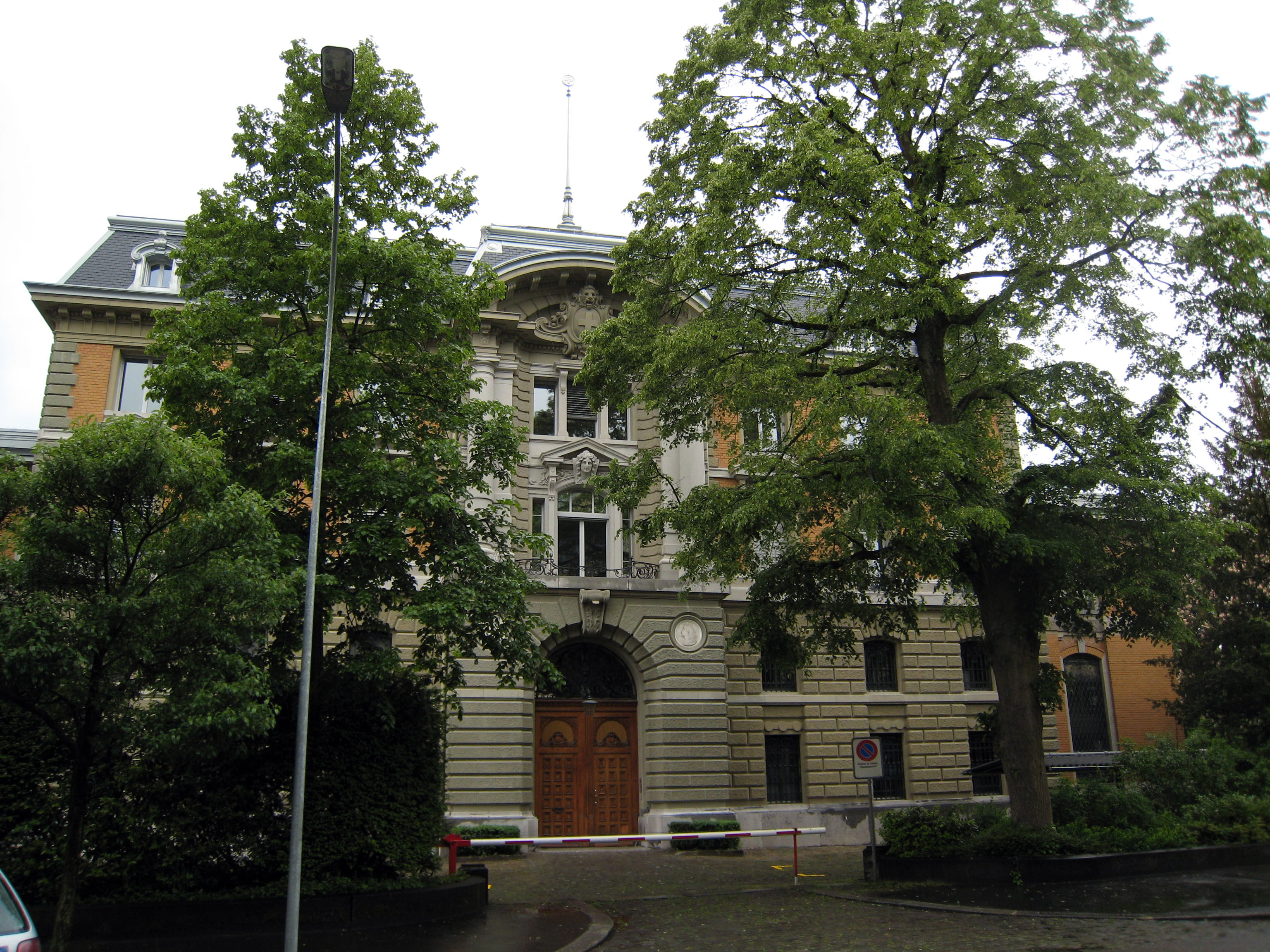 The building of Swissmint, the official mint of the Swiss Confederation.